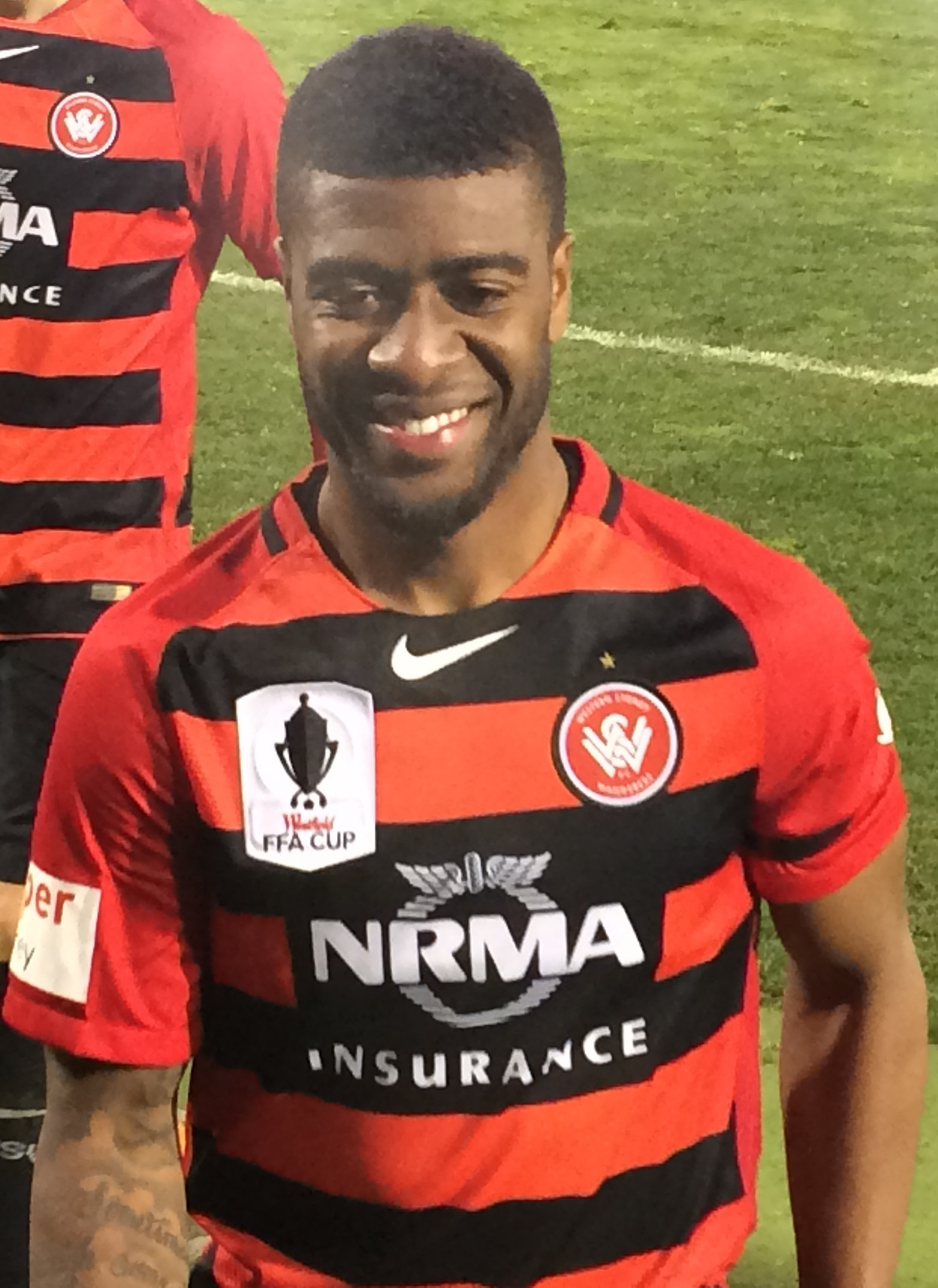 Roly Bonevacia Western Sydney Wanderers player following the FFA Cup match against his former club Wellington Phoenix at Campbelltown Sports Stadium on 1 August 2017.